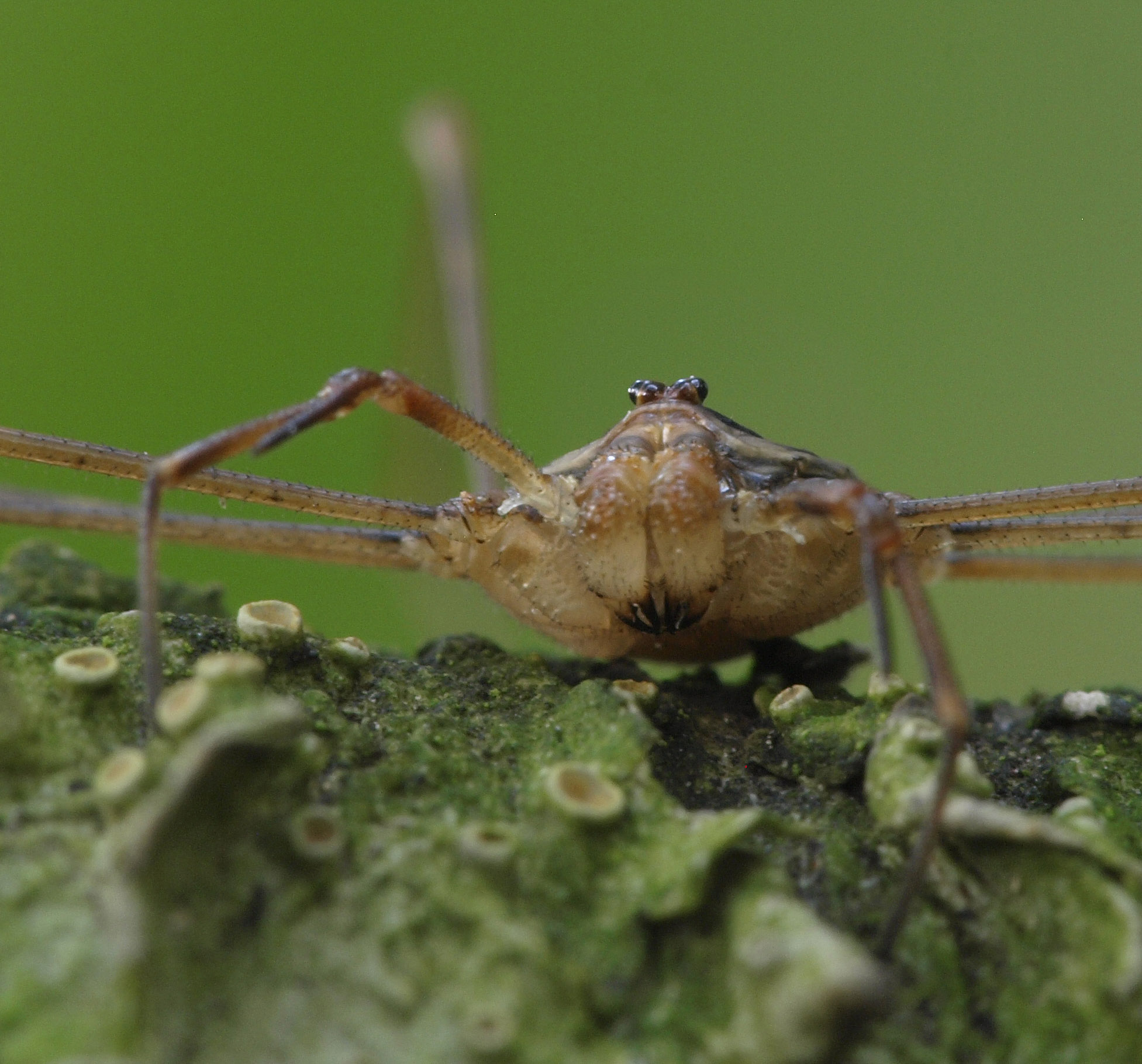 A male Dicranopalpus ramosus (detail)